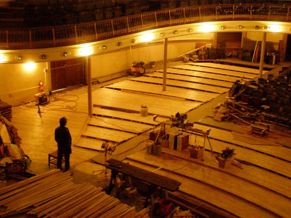 Shows further progress in re-decking the Music Hall floor, with completion of the West Bank.